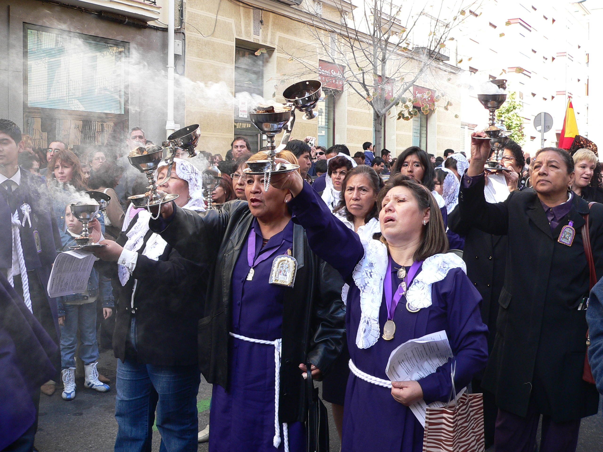 Description: Señor de los Milagros Subject: Incense and prayers City: Madrid Country : Spain Photographer: © Manuel González Olaechea y Franco Shot date : October, 23rd, 2005